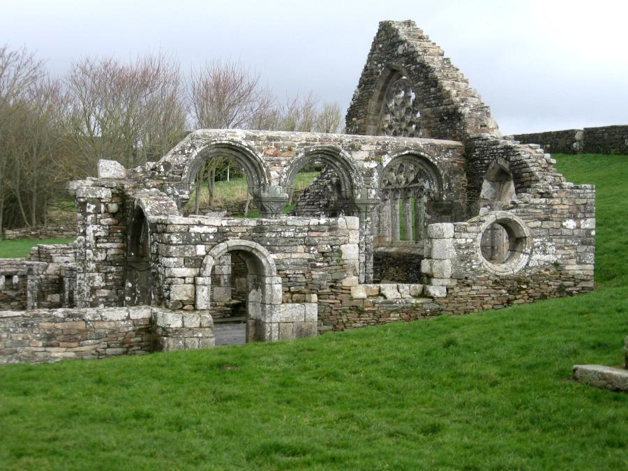 Chapelle de Languidou : choeur (vue extérieure).